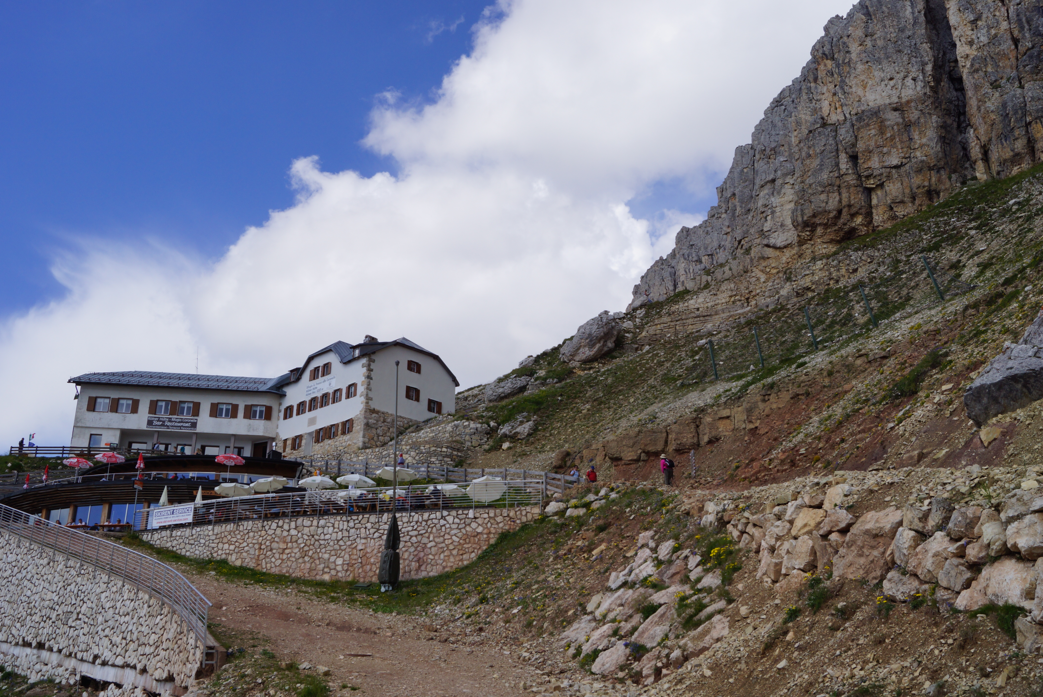 Italy South Tyrol - Rosengarten 2.337 m s.l.m.